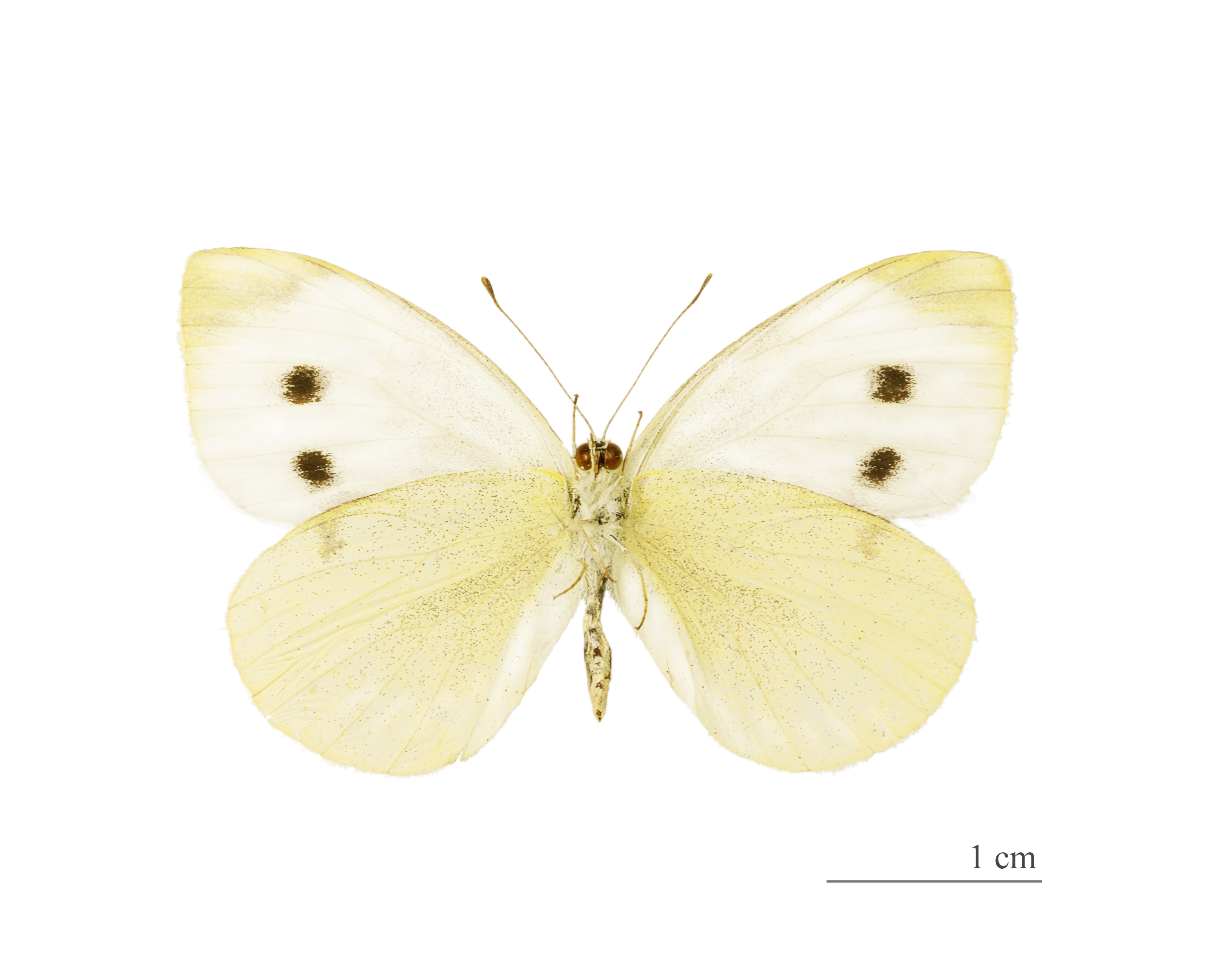 ♀ - △ Ventral side Locality: Maourine pond, Toulouse, France